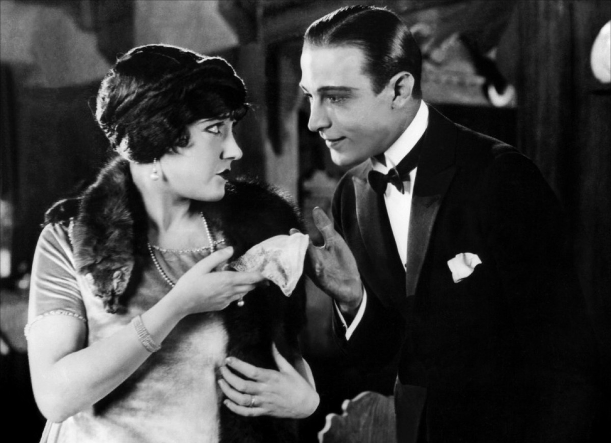 Gloria Swanson & Rudolph Valentino in Beyond the Rocks - cropped screenshot